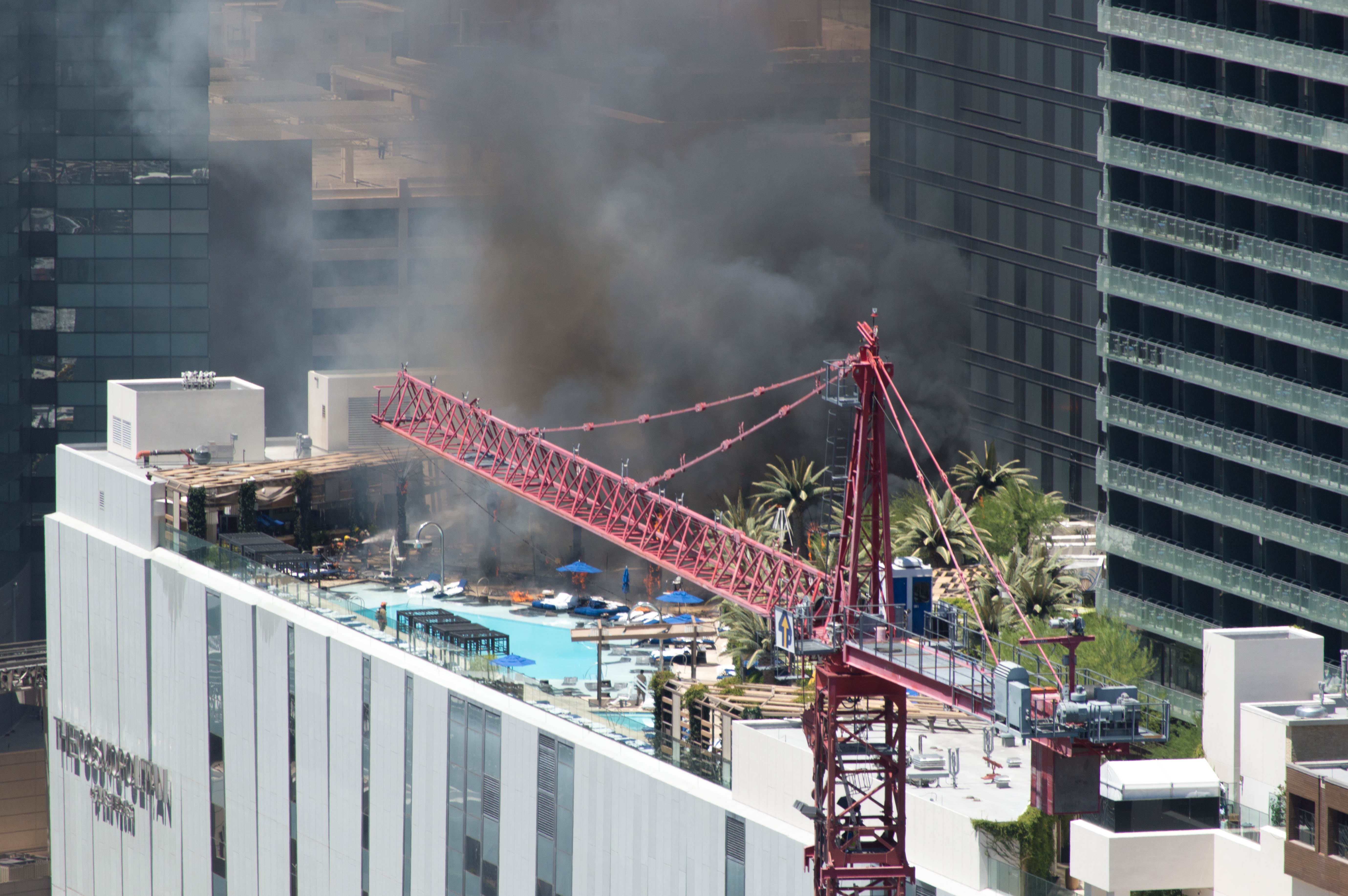 Fire at the Cosmopolitan in Las Vegas, seen from the rooftop terrace of Marriott's Grand Chateau. The picture was taken twenty minutes after it was reported.